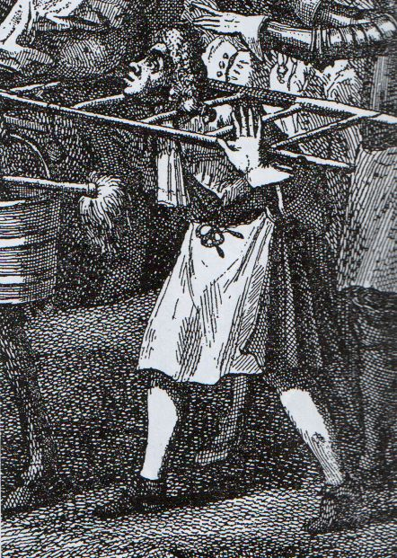 Possible James Anderson's portrait on a William Hogarth's caricature. According to the web page of The Grand Lodge of British Columbia and Yukon, it is the only existing image of Anderson.